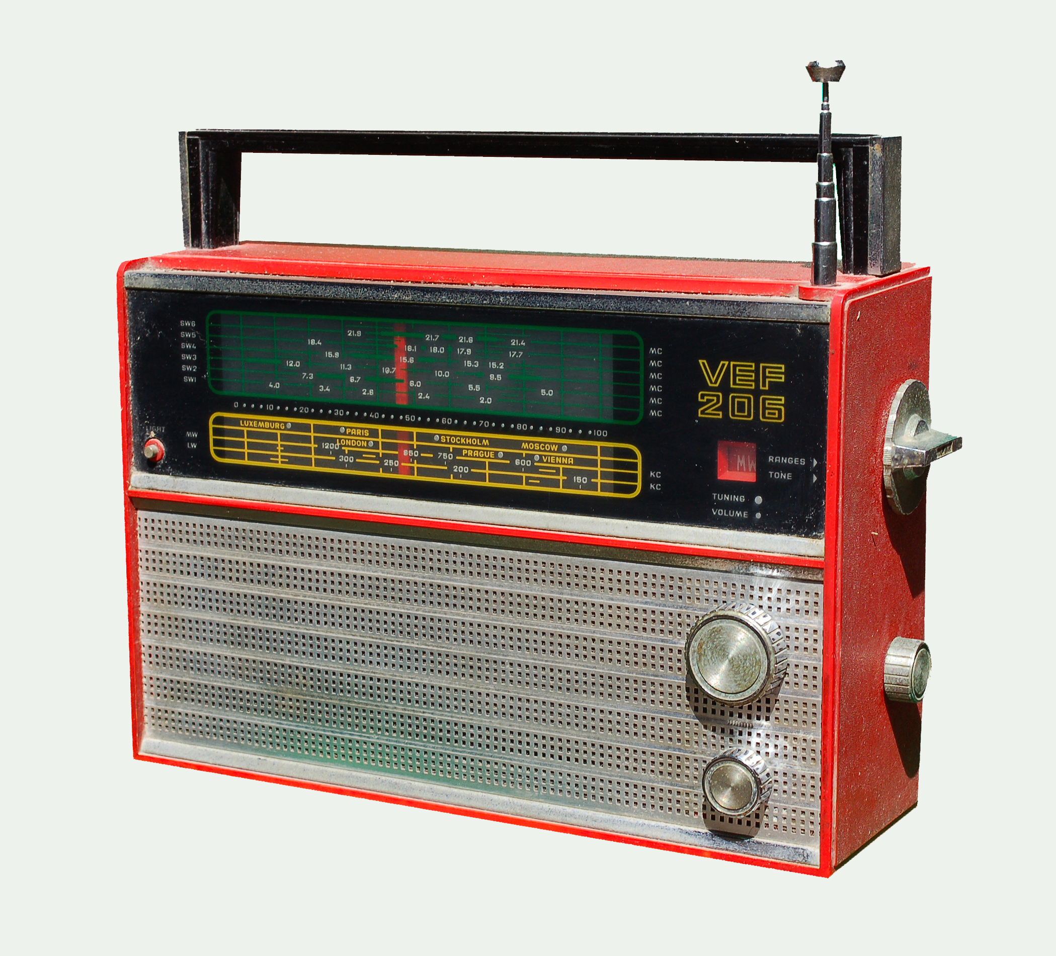 An old USSR VEF206 Radio receiver (1973).